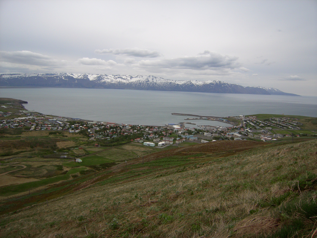 Picture from 2008